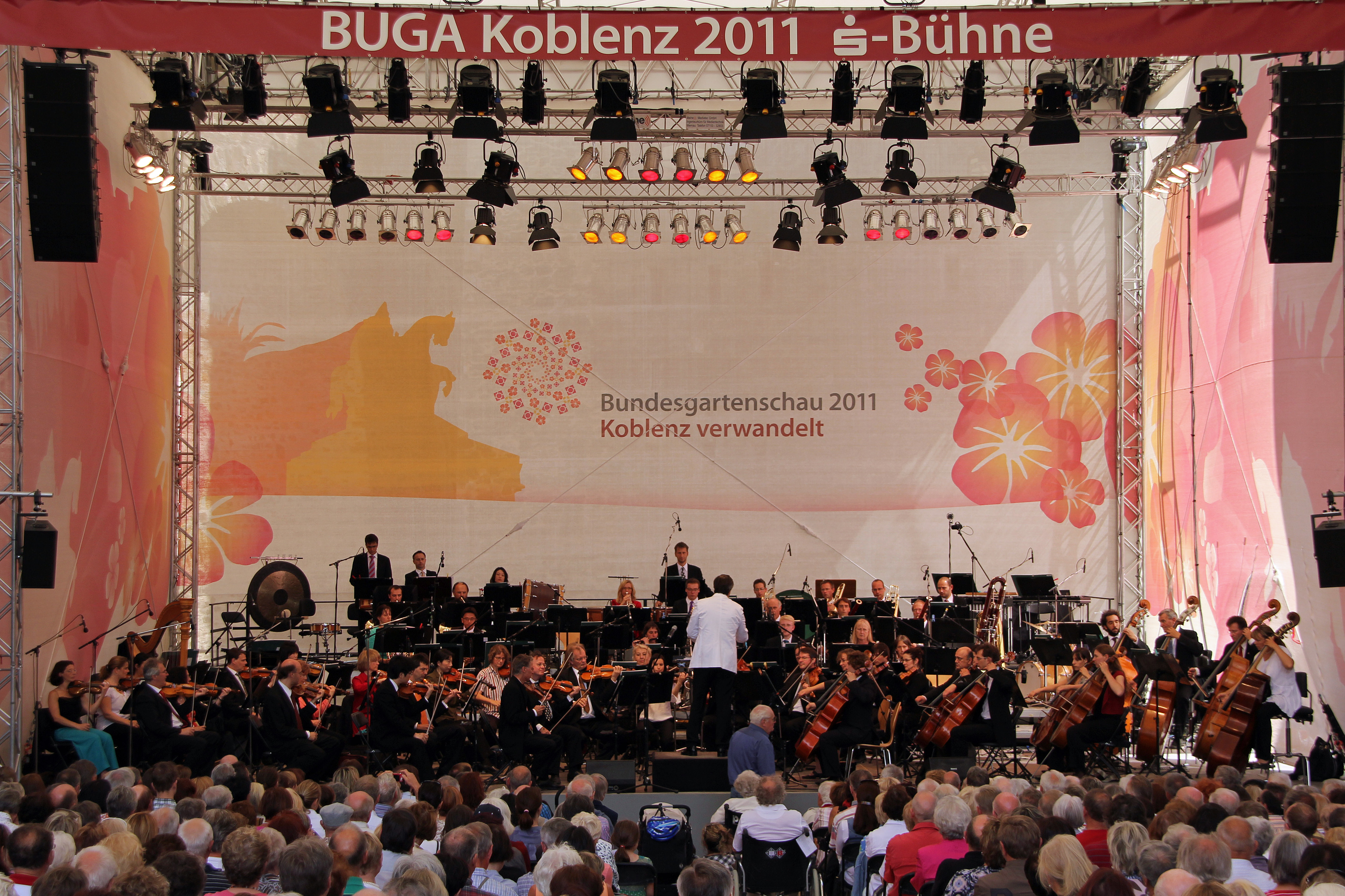 Federal Horticultural Show 2011 in Koblenz